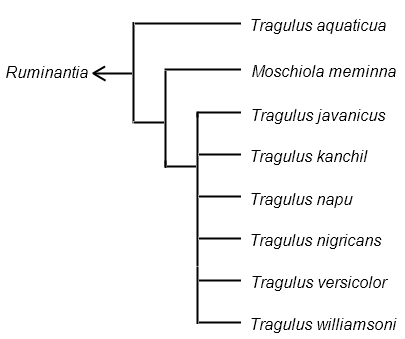 Evolutional tree of the Chevrotain family (Tragulidae)